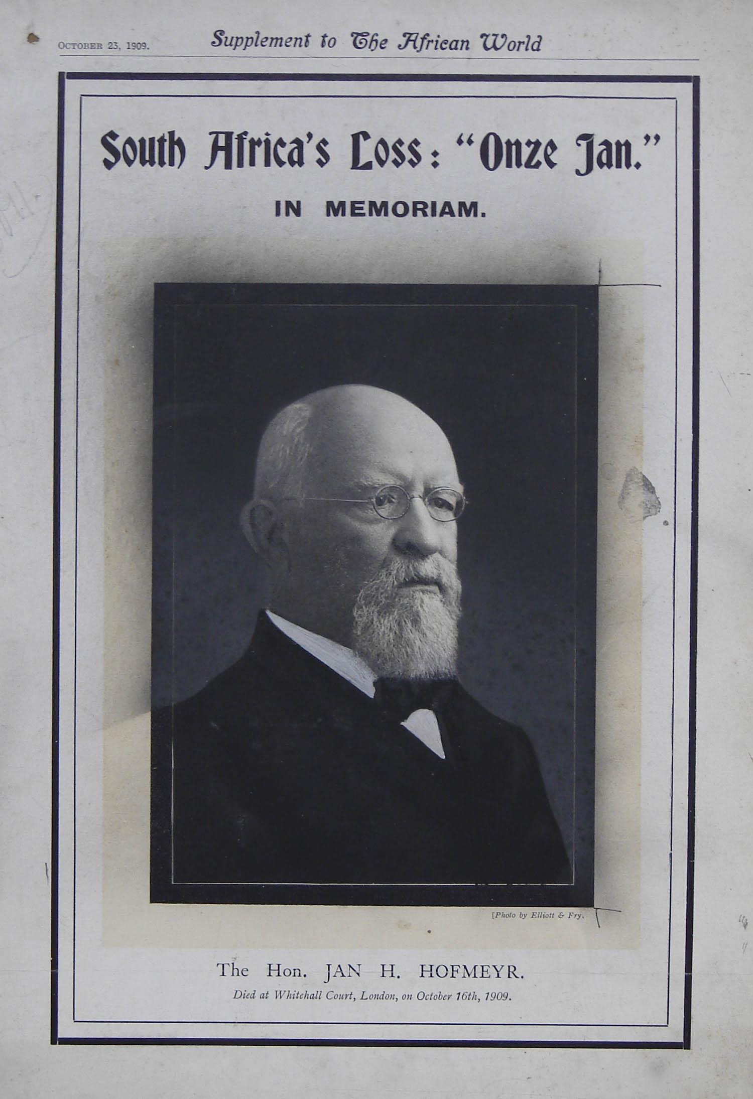 Jan Hendrik Hofmeyr (1845-1909)